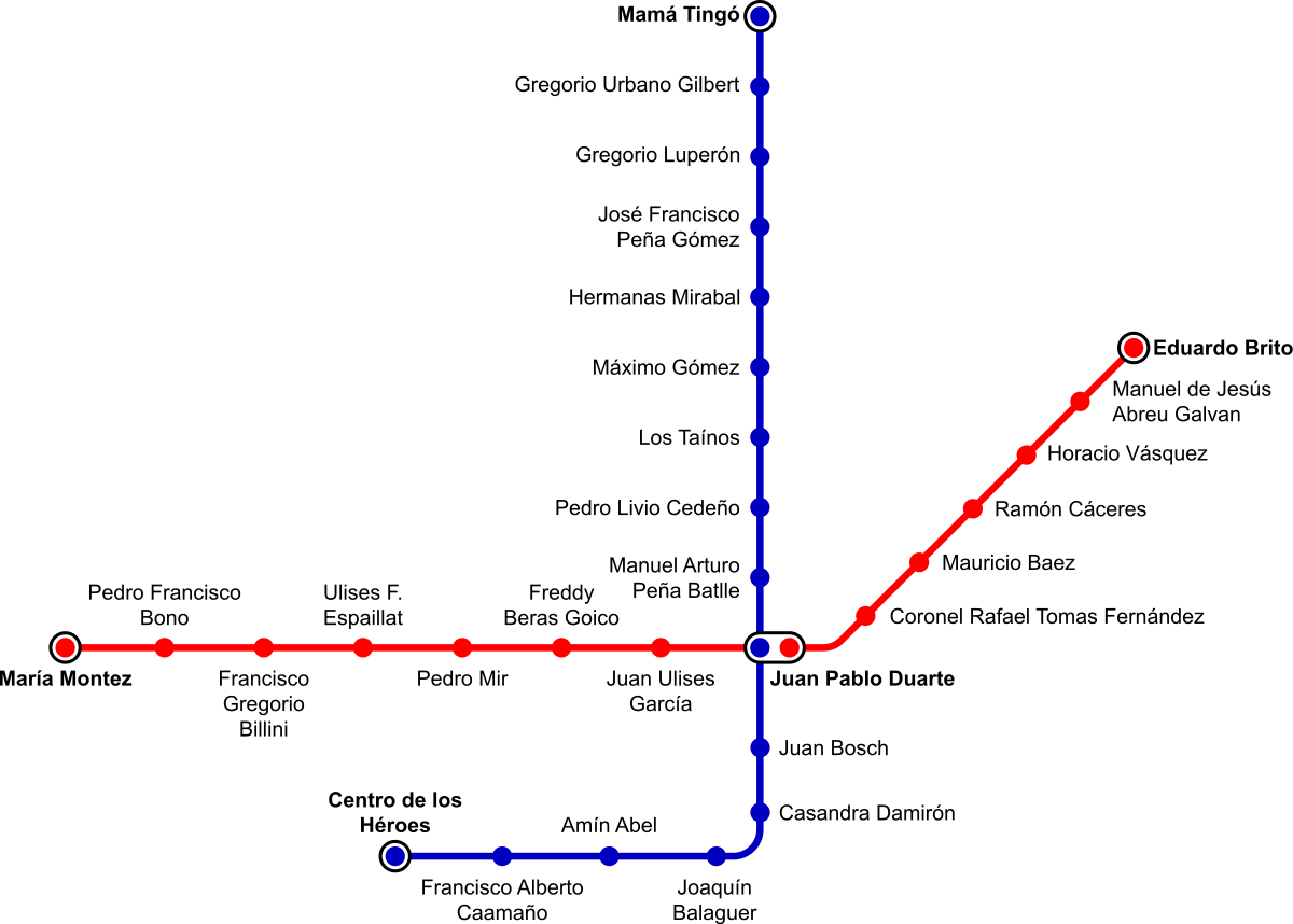 La Primera línea y Segunda líneas